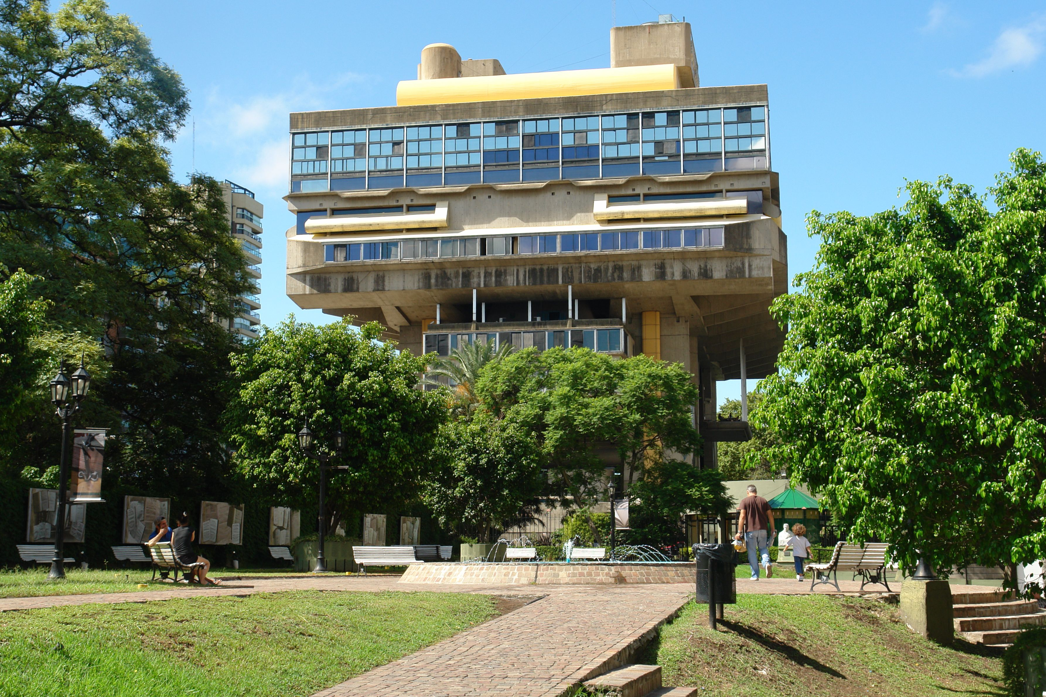 Biblioteca Nacional de la República Argentina, Buenos Aires, Argentina.